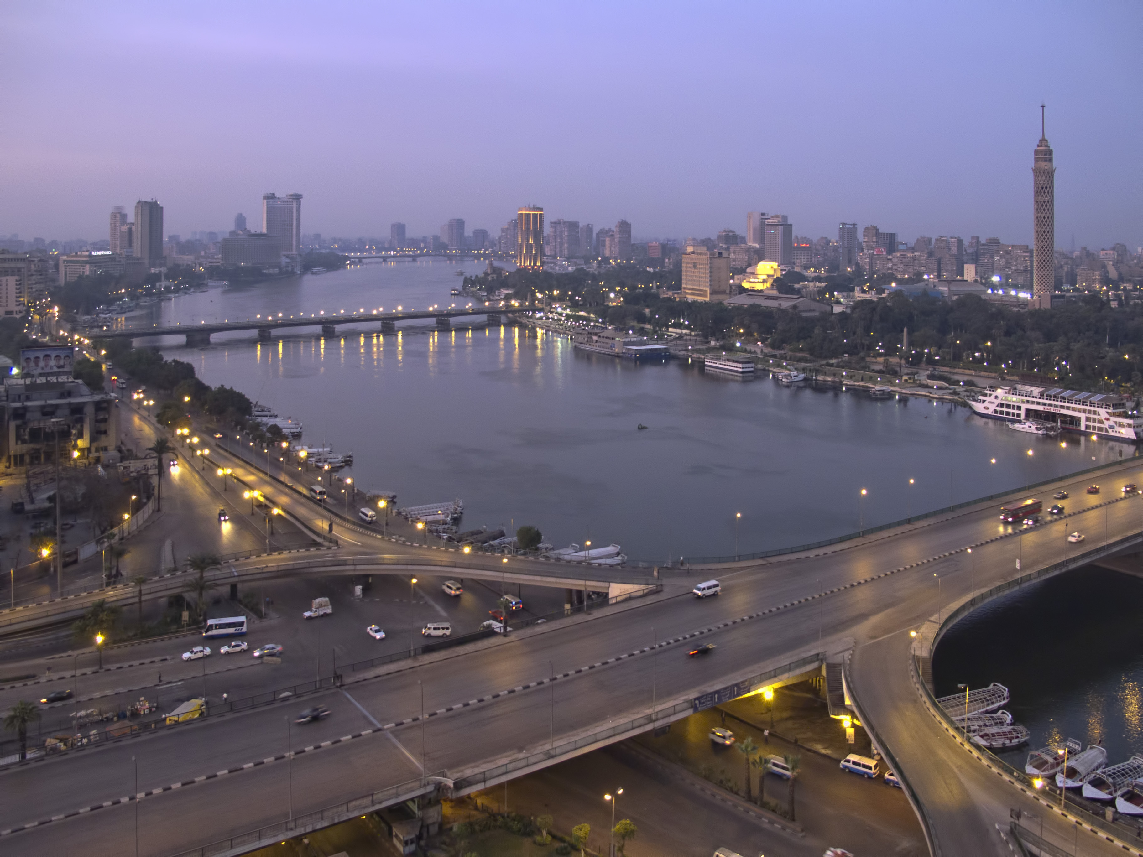 View of the Nile from Ramses Hilton.